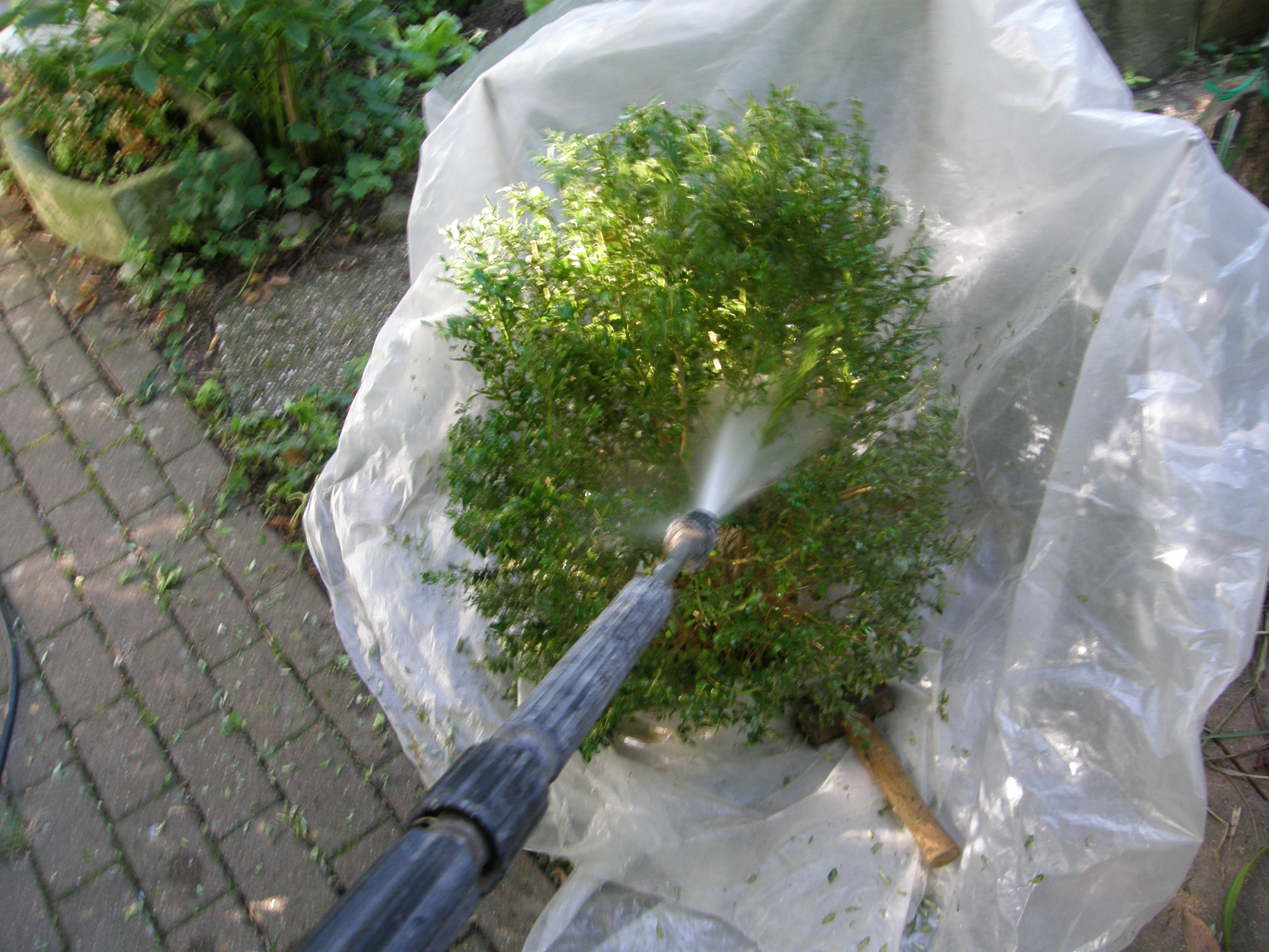 fight against buchsbaumzuensler